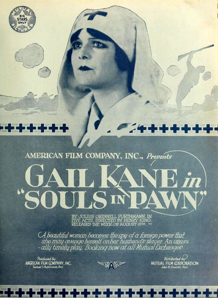 Advertisement in Moving Picture World, Aug 1917